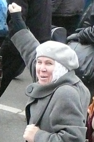 Fauzia Bairamova).